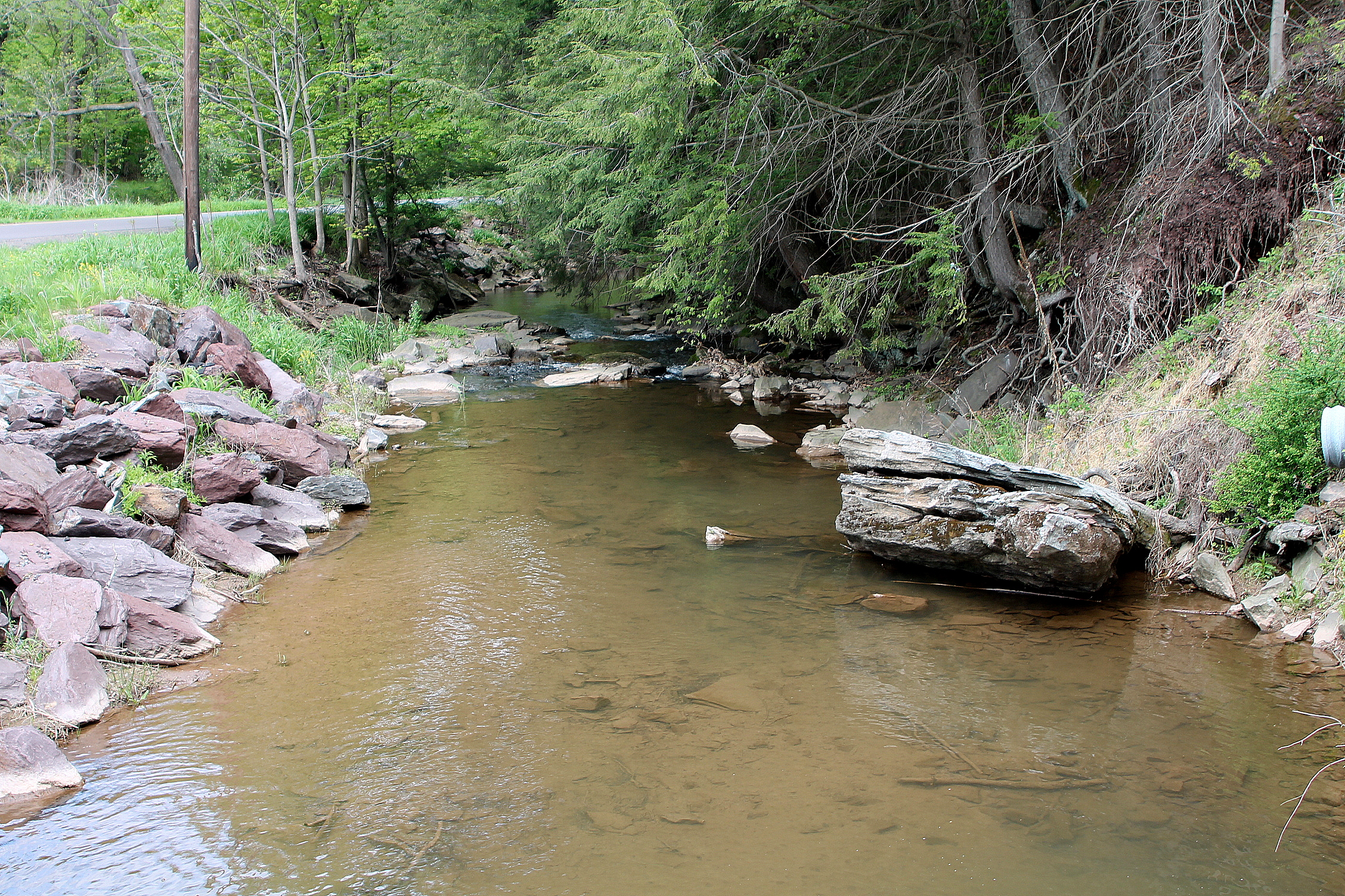 Deerlick Run, a tributary of Fishing Creek, near the Orange Township/Mount Pleasant Township border in Columbia County, Pennsylvania